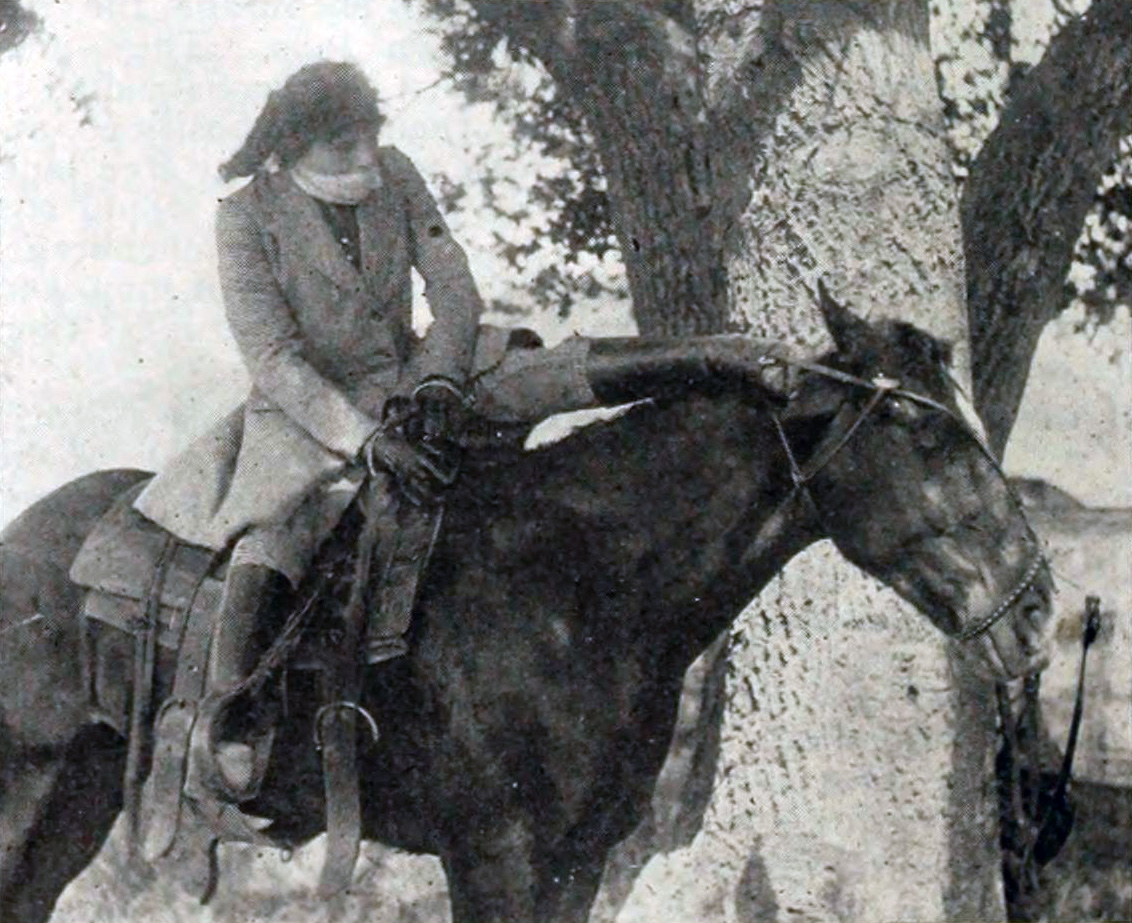 Photo still published in The Moving Picture World